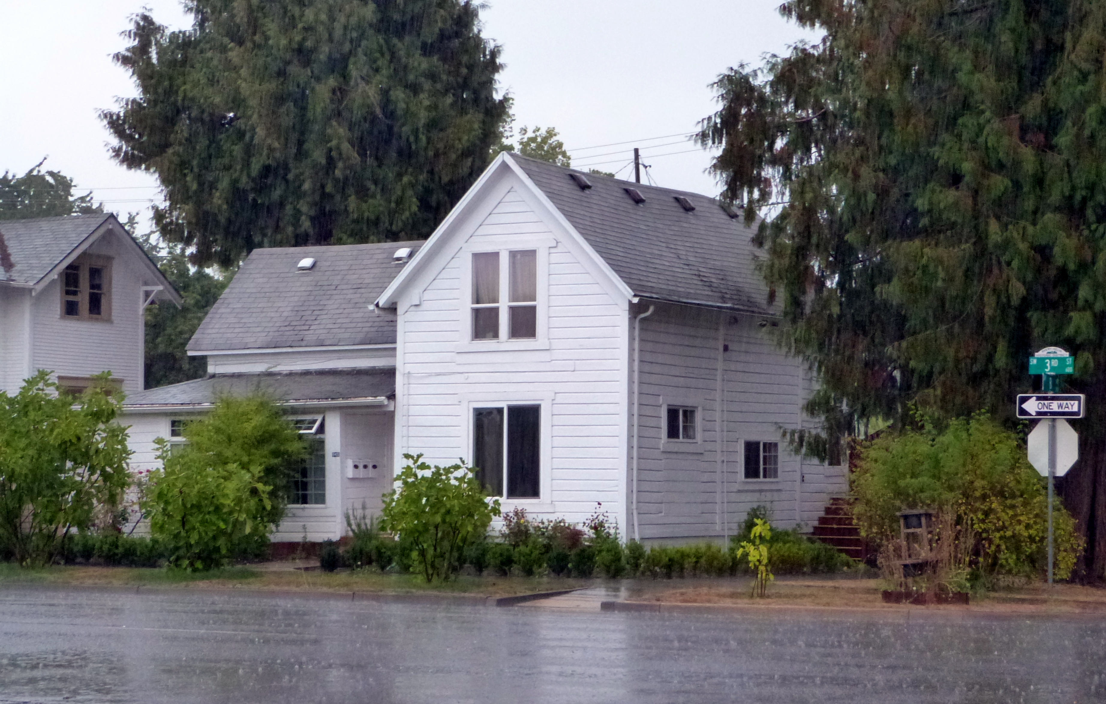 The historic Mary G. Reed House (built ca. 1905), located at 645-647 Southwest 3rd Street in Corvallis, Oregon, United States, is listed as a contributing resource in the Avery–Helm Historic District. The historic district is listed on the US National Register of Historic Places.